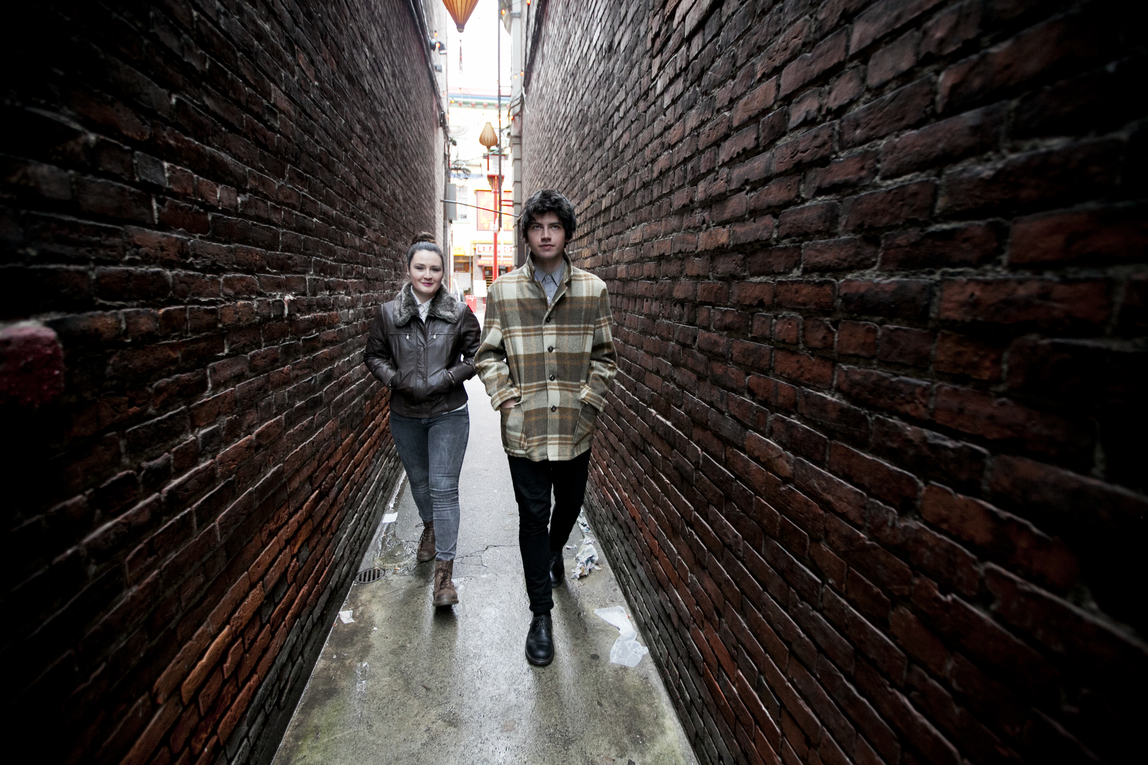 Qristina & Quinn Bachand in Fan Tan Alley, Victoria BC Photo by Darren Stone